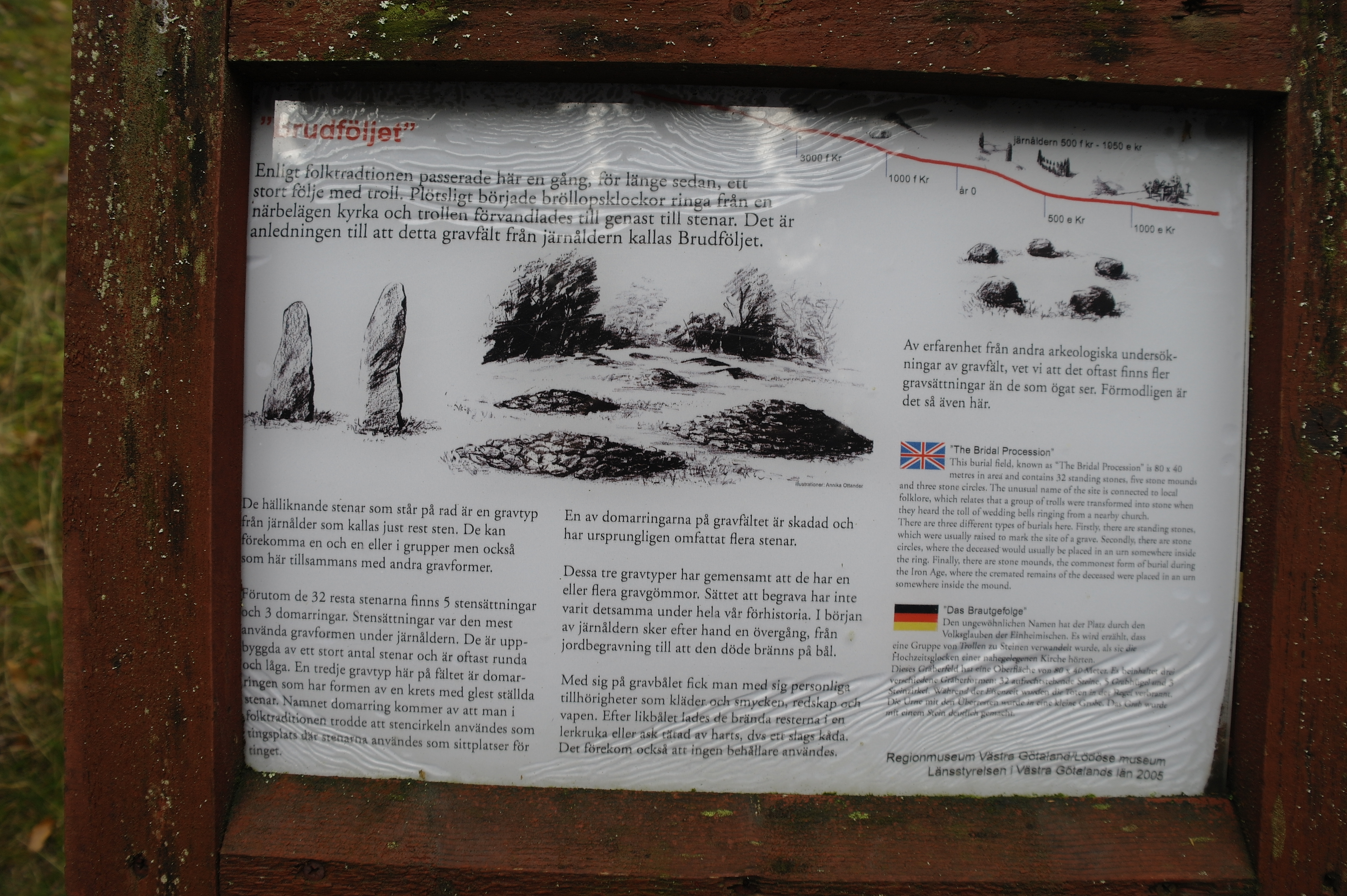 Brudföljet in Annelund, Herrljunga Municipality. It's a burial field.